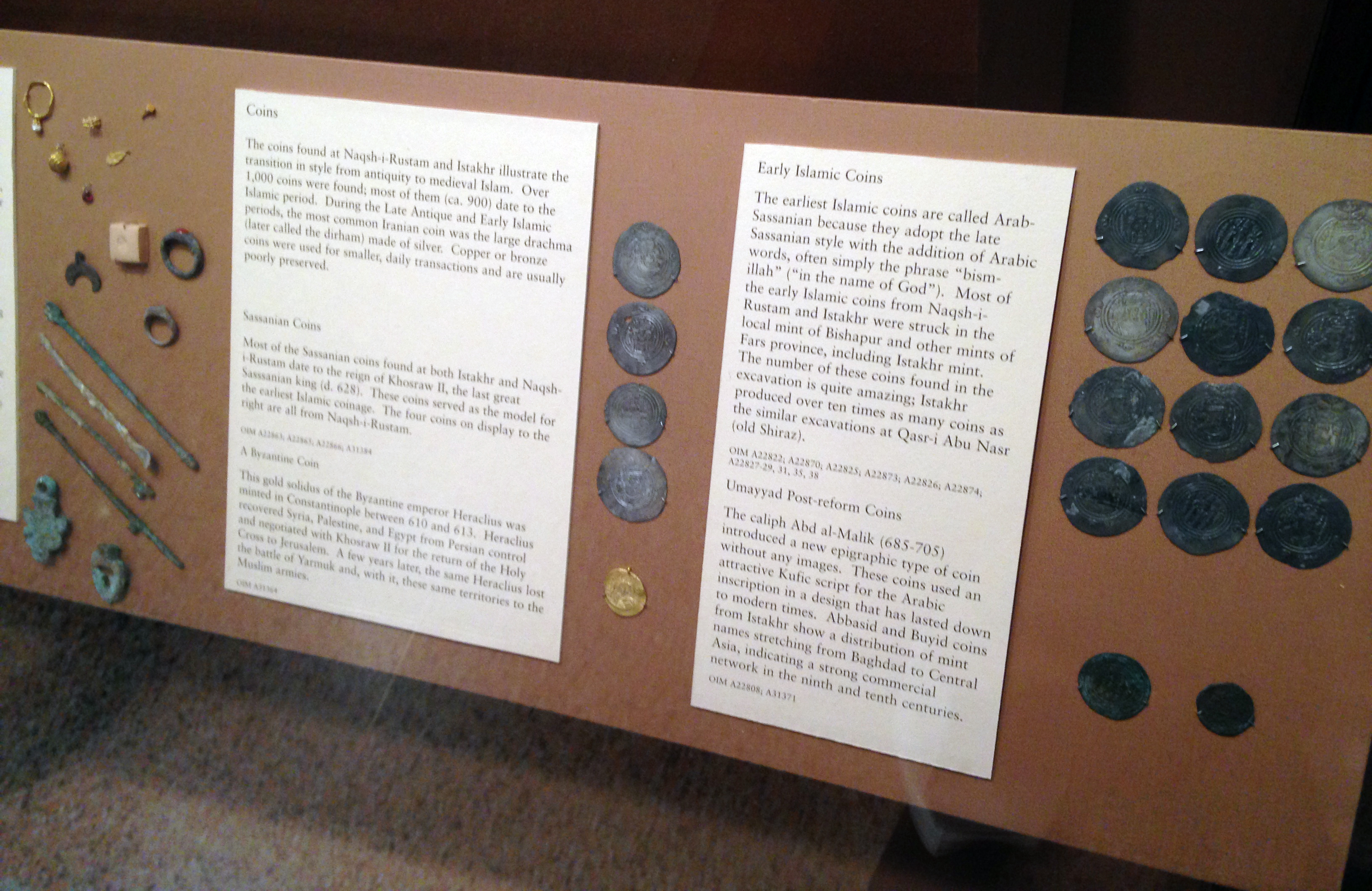 Some coins of pre-islamic era and islamic era of Iran and one gold coin of Byzantine Empire have been exhibited in University of Chicago Oriental Institute.